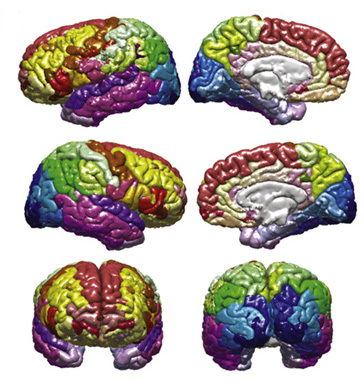 Brains colored according to the outer ring of the connectogram for fast and simple comparison.